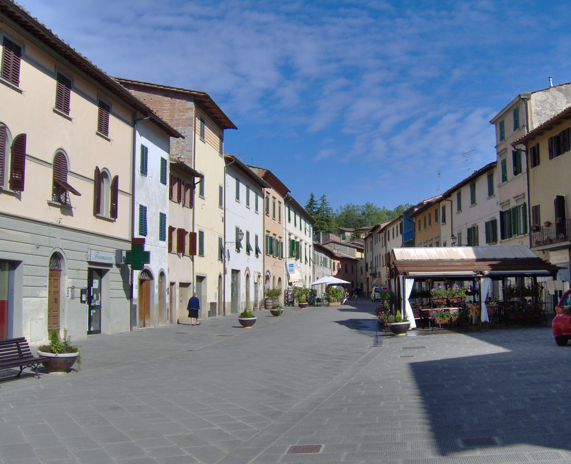 The Via Bettino Ricasoli in Gaiole in Chianti, Tuscany, Italy